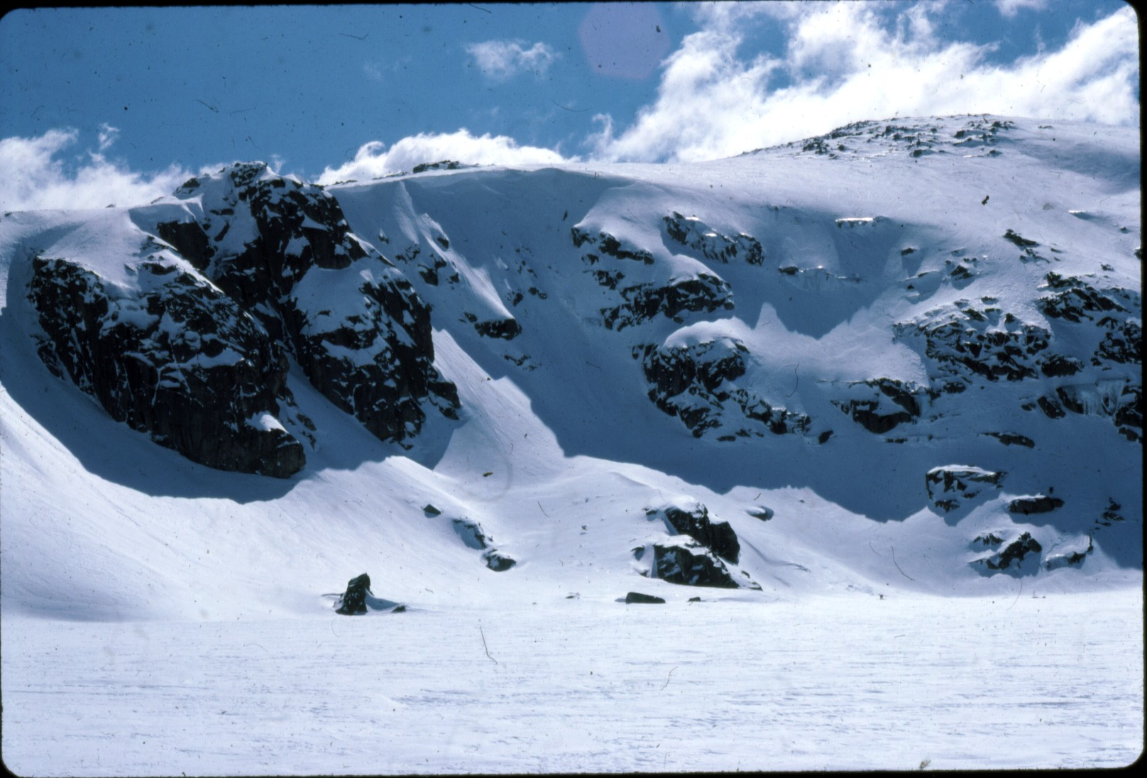 Blue Lake, Snowy Mountains NSW 1976